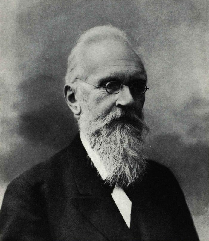 Valentin Rose (1829–1916), German Classicist and Librarian